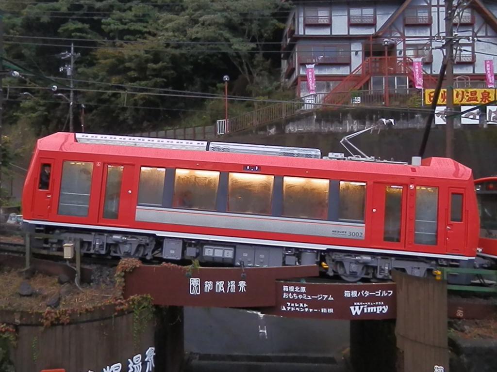 Hakone Tozan Railway series 3000 "Allegra" EMU car 3002 approaching Hakone-yumoto Station on the 80‰ grade section